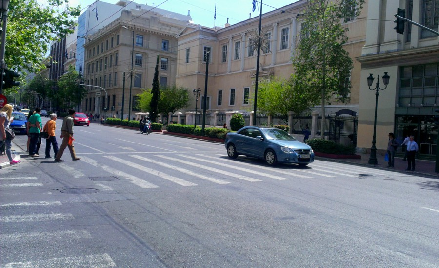 panepistimioy